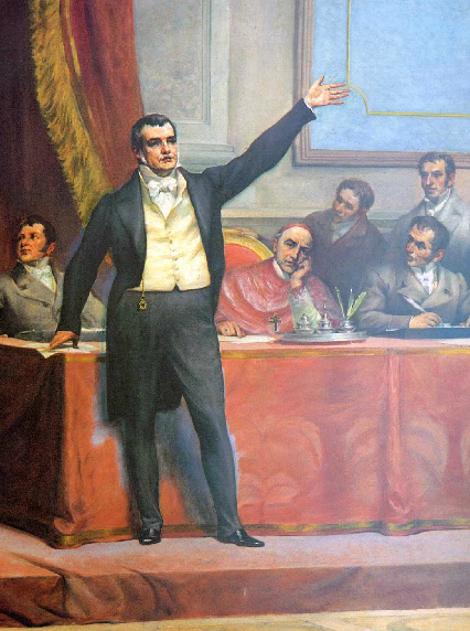 Detail of Manuel Fernandes Tomás (1771-1822), in a painting depicting the 1920 Constituent Courts in the Palace of Saint Benedict, by Veloso Salgado.